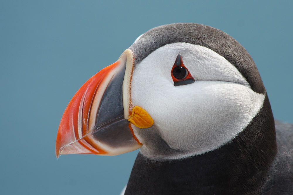 Atlantic Puffin (Fratercula arctica) at Látrabjarg, Iceland